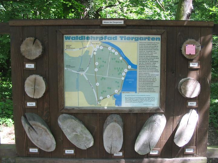 Sign nature trail in the Tiergarten (german literally for: zoological garden), historical hunting-forest and todays nature reserve, in the village Neue Mühle, part of the town Königs Wusterhausen in the district Dahme-Spreewald, state Brandenburg, Germany.